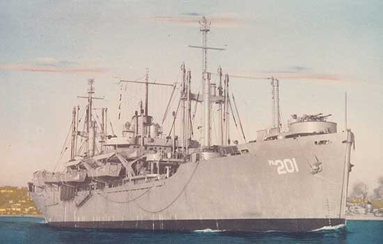 The U.S. Navy attack transport USS Menard (APA-201) underway at sea, circa in the l940s.